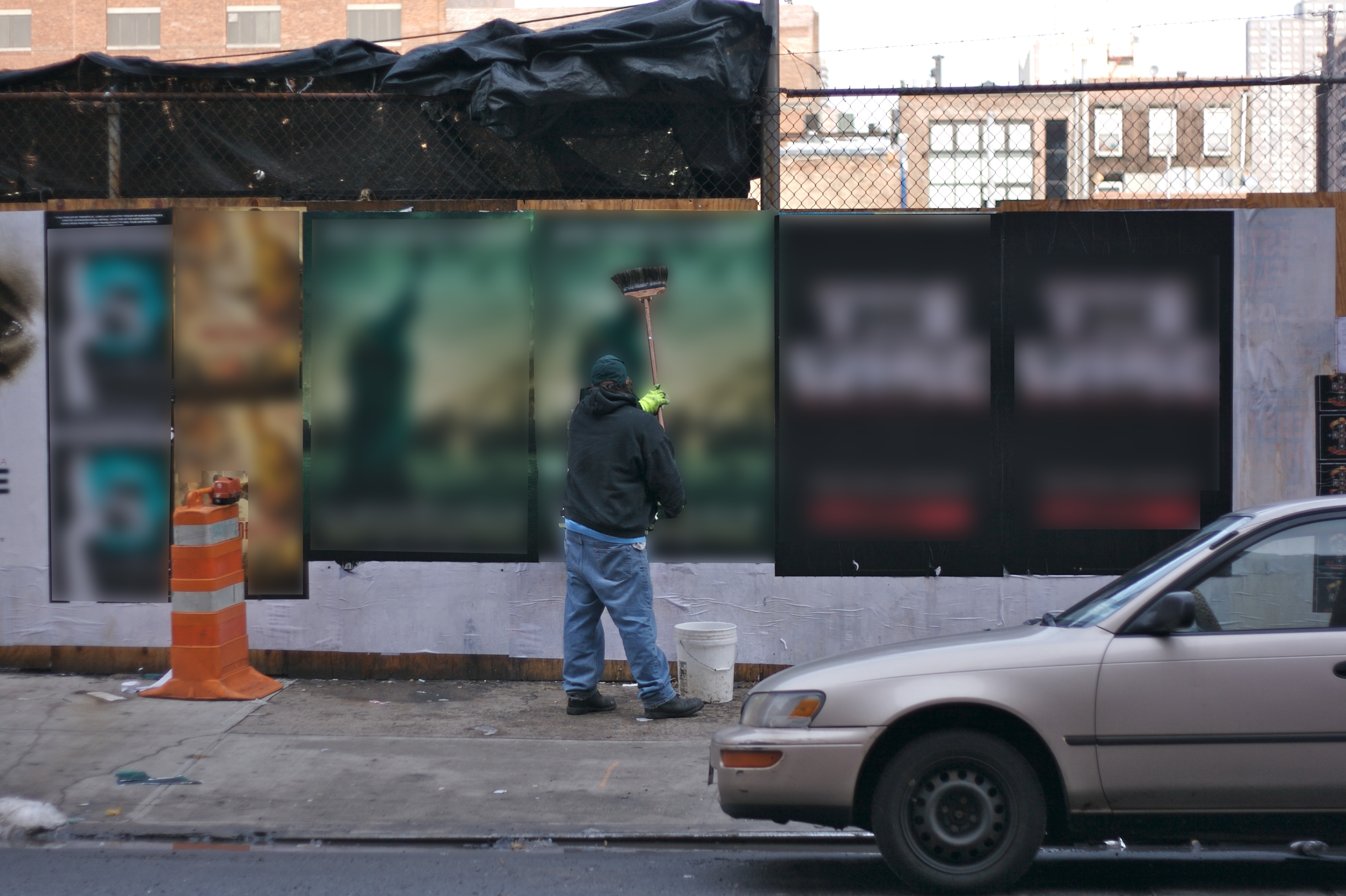 a man glueing Cloverfield posters on a wall